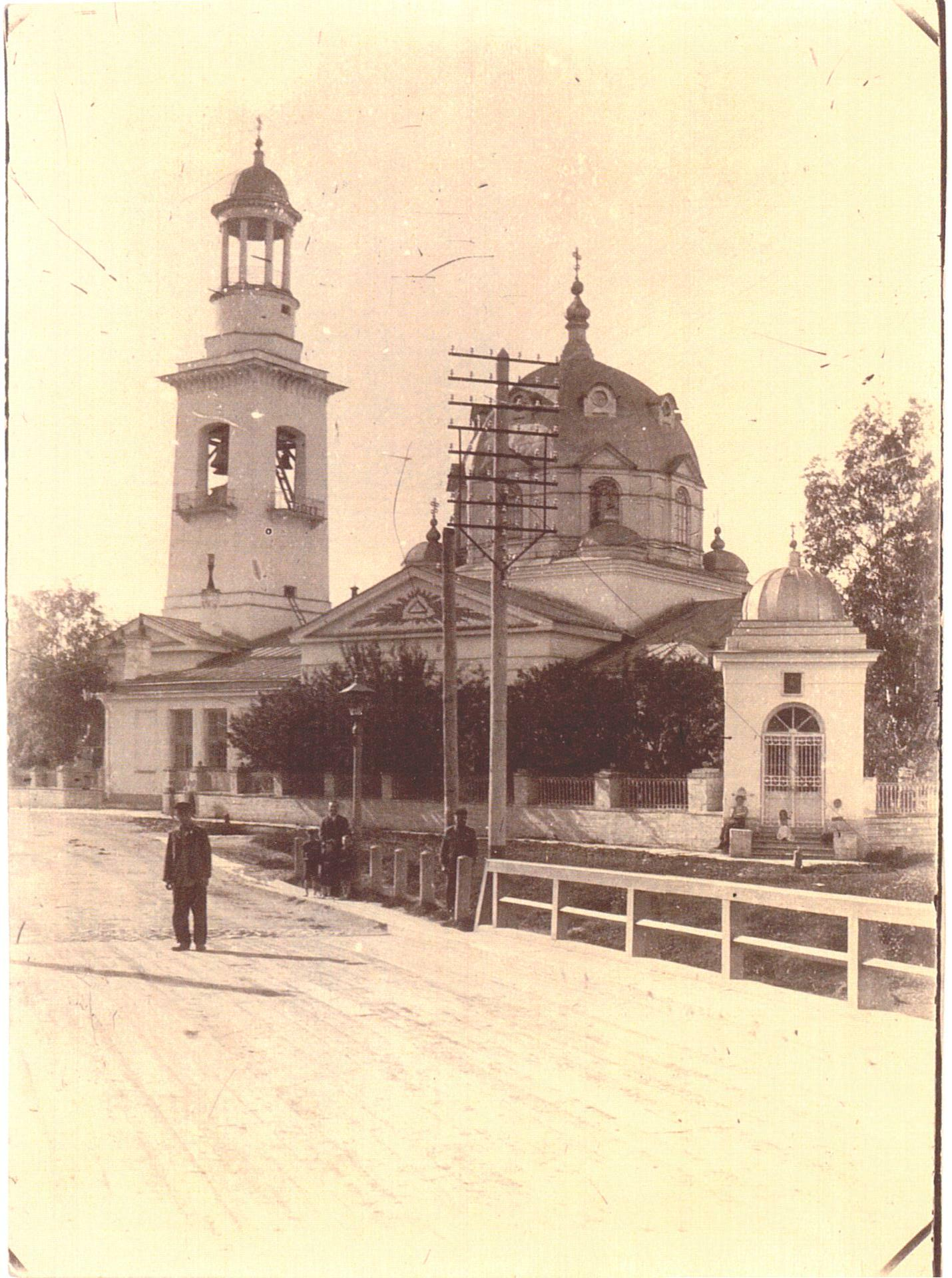 Ust-Izhora (Russia), St. Alexander Nevsky church.